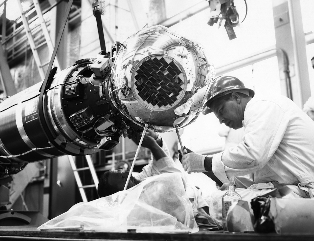 An engineer from Ling-Tempco-Vought makes final adjustments to a SECOR Satellite. Wallops Island, Virginia. The U.S. Army successfully launched nine SECOR satellites.